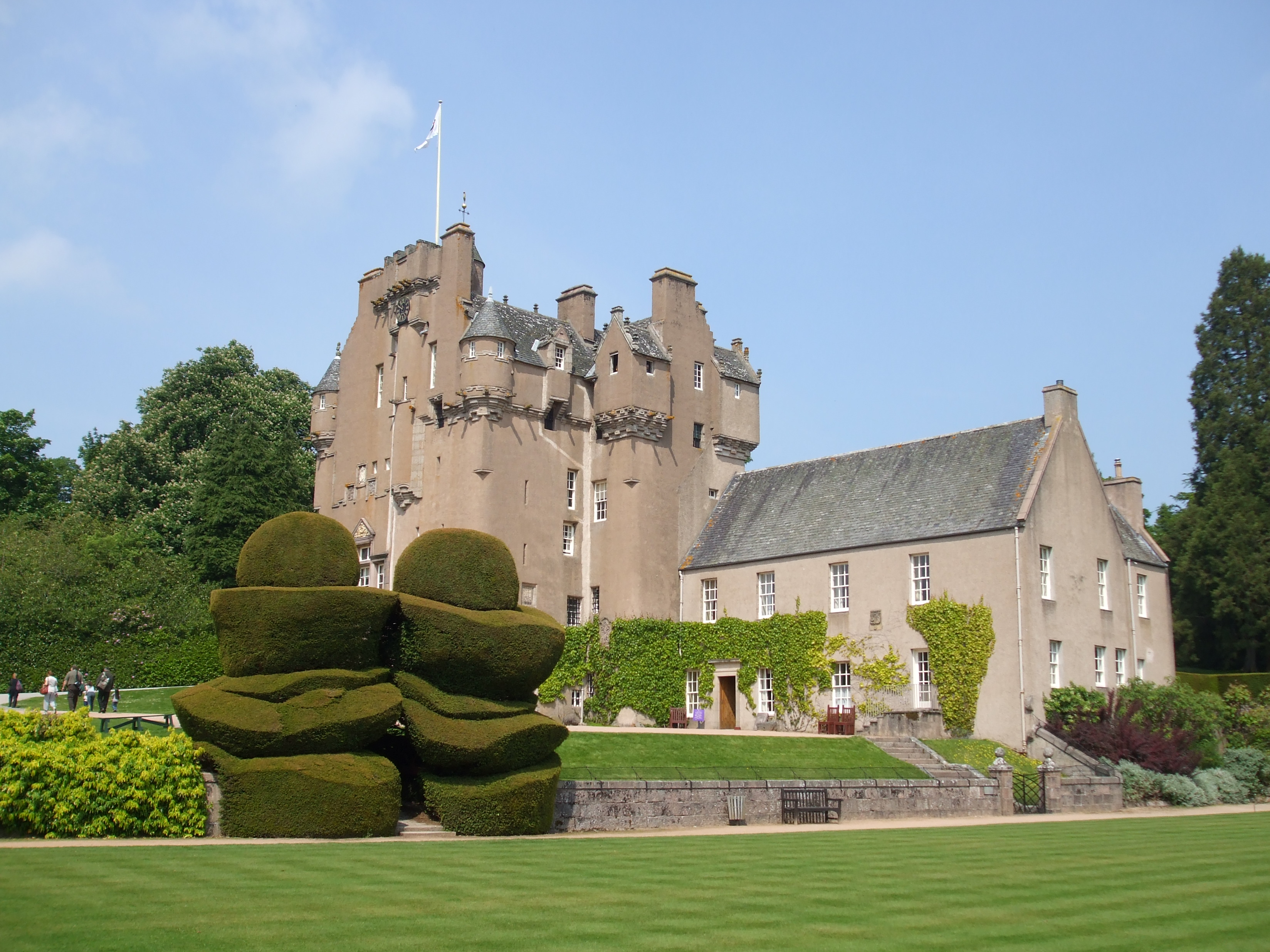 Near Aberdeen, Scotland -- June 2008 Crathes Castle